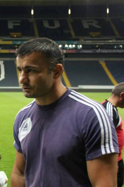 Gurban Gurbanov in 2013